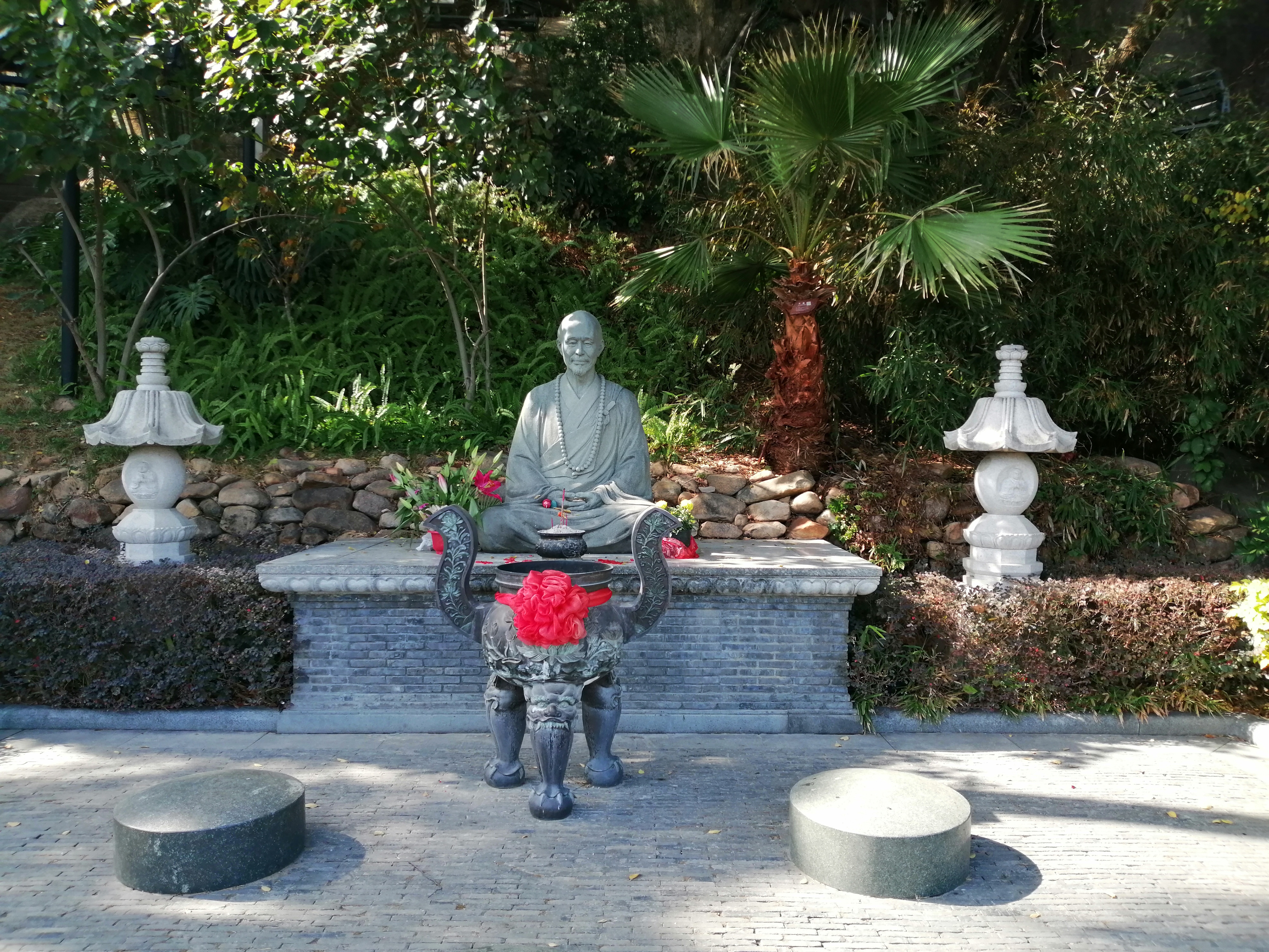 Statue of Li Shutong in Kulangsu, Xiamen. 中文（中国大陆）: 厦门鼓浪屿弘一大师纪念园内的李叔同塑像。